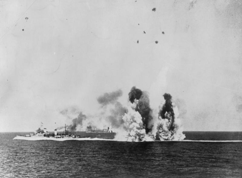 Operation Pedestal, August 1942 12 August: Evening Air and Submarine attacks: HMS KENYA under air attack on her return voyage to Gibraltar.